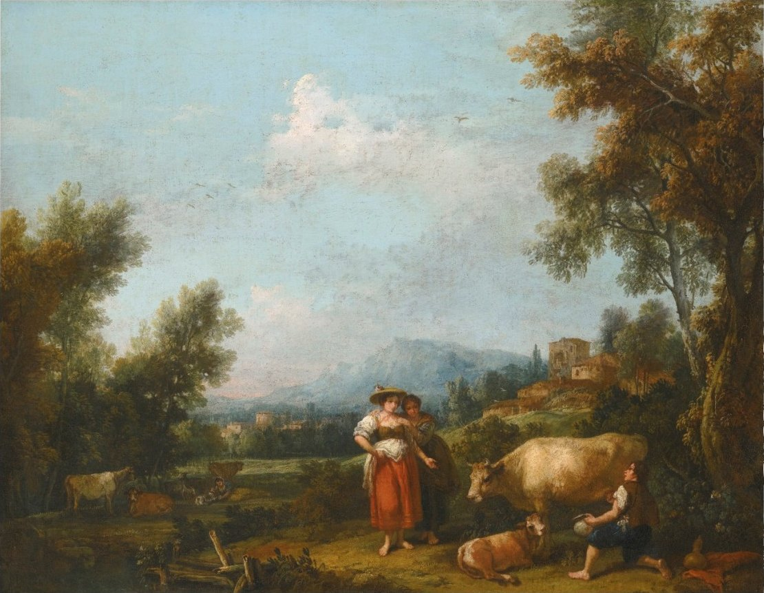 Two Maids Converse with a Boy Milking a Cow in a Pastoral Landscape, with a Small Town in the Distance, oil on canvas by Francesco Zuccarelli, 56.8 by 71.9 cm